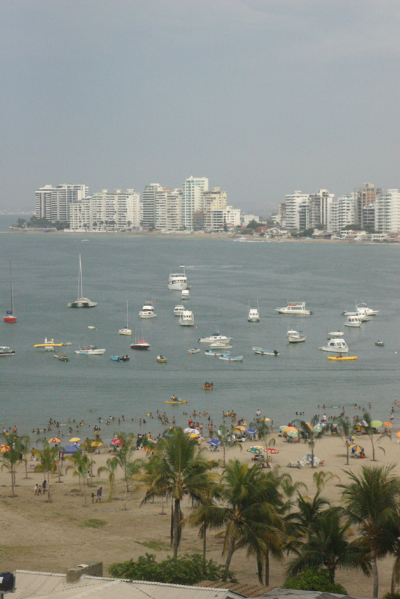 CIUDAD DONDE CRECI MAURICIO BENAVIDES